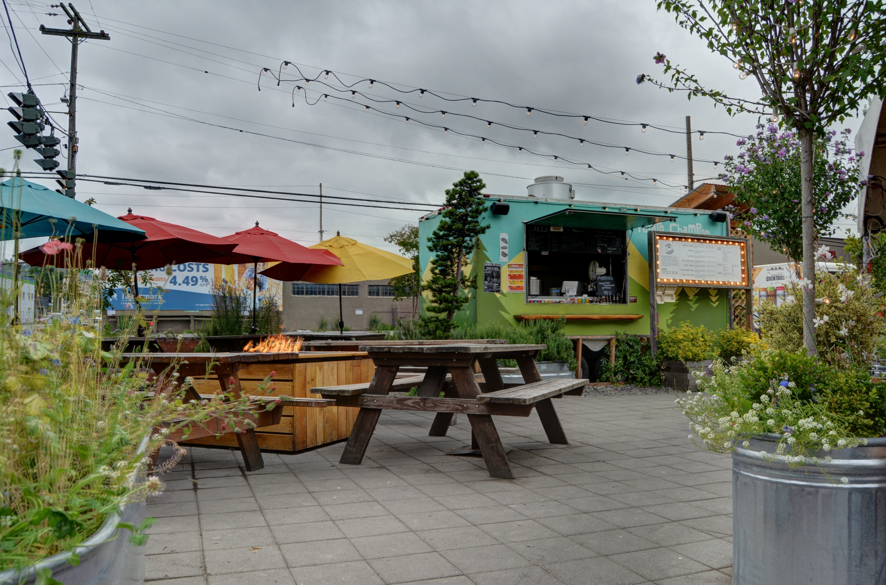 Potato Champion at the Cartopia food cart pod in Portland, OR.